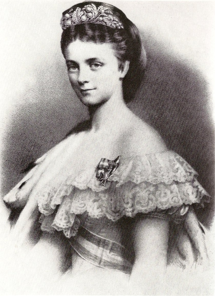 Sophie Charlotte, duches of Bavaria, bride of Ludwig II., on this lithograph of 1867 pictured already as queen of Bavaria. After the break of one's engagement Ludwig II. collect all the copies of this portrait to destroy them.